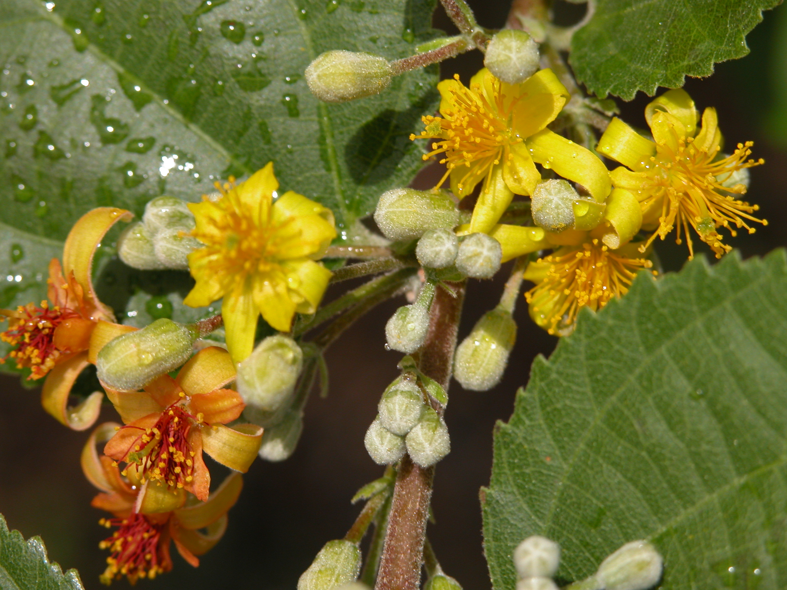 The Phalsa tree (Grewia asiatica / Tiliaceae) is located in the Ghosh Grove, Rockledge, Florida.